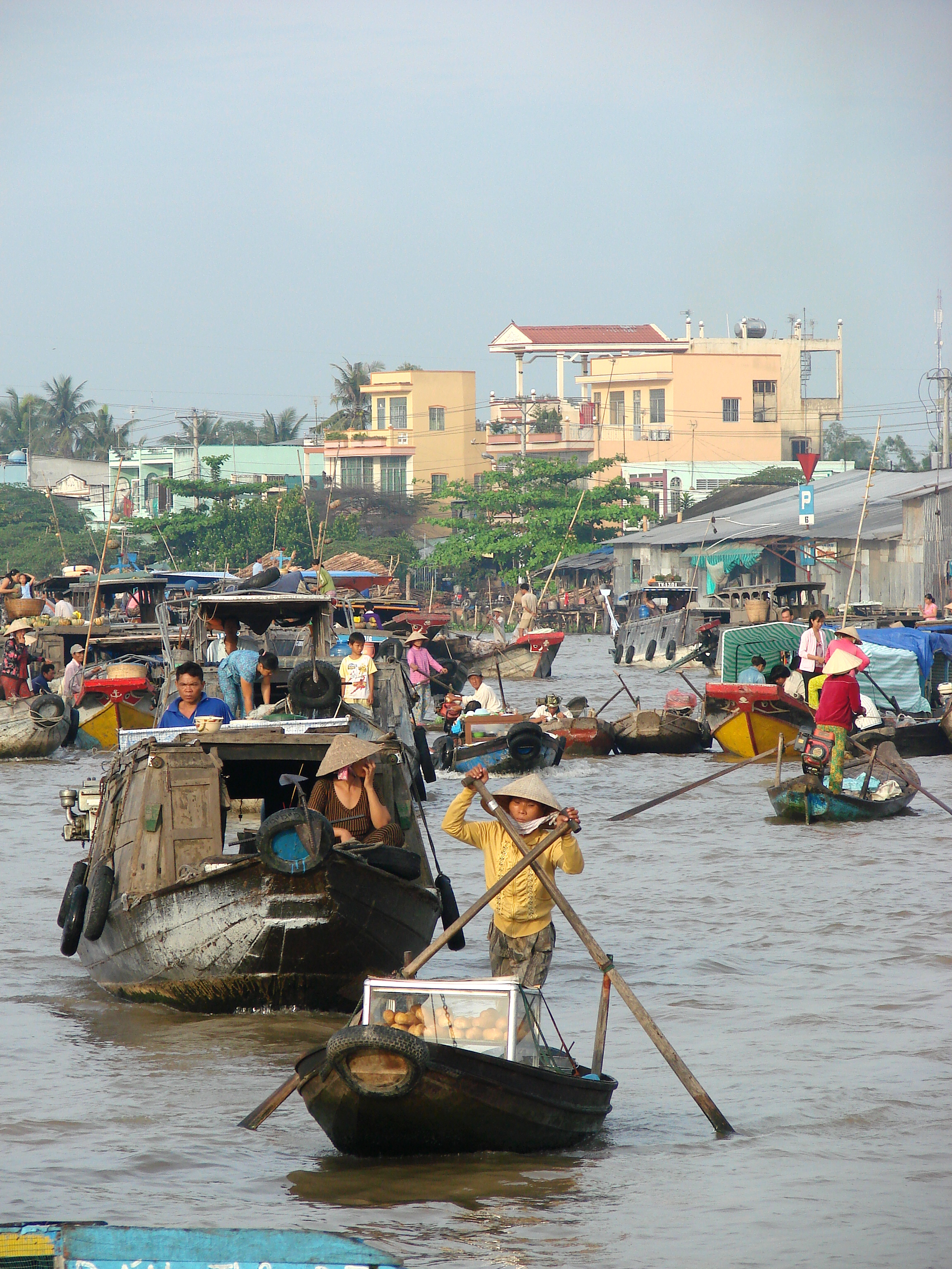 Floating market, Can Tho, Vietnam. July 2009.